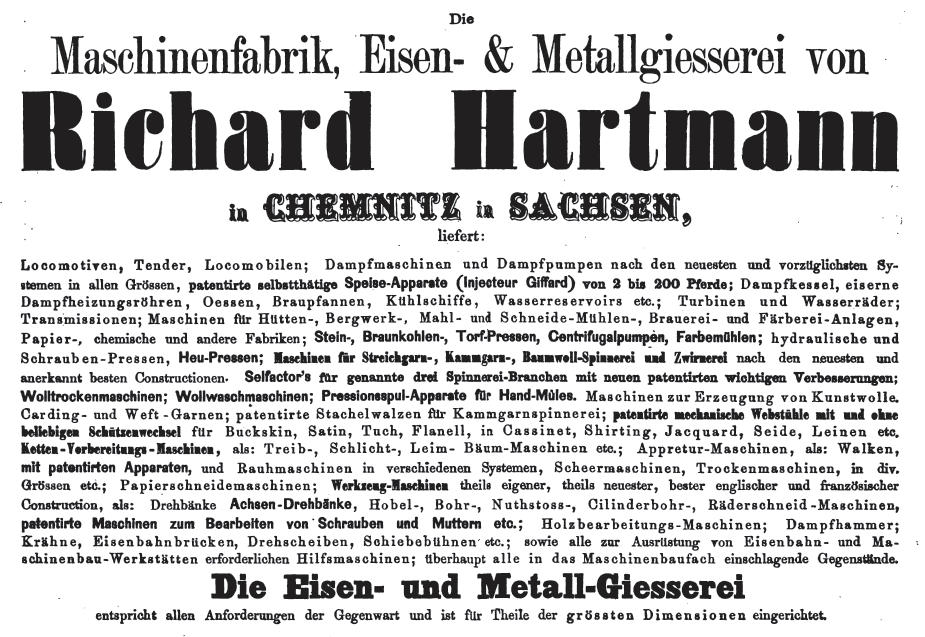 This image shows the advertising of Richard Hartmanns factory. Hartmann was one of the most successful entrepreneurs and largest employers in the Kingdom of Saxony. The advertisement was published 1861.